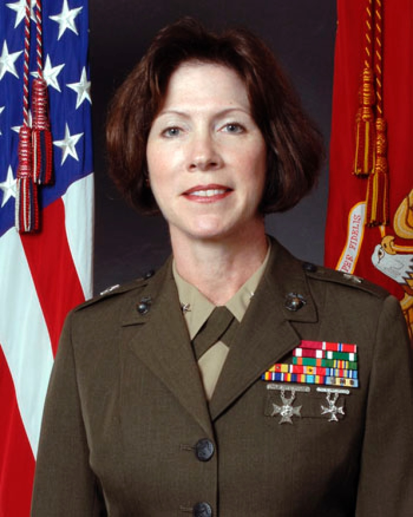 Brig. Gen. Tracy L. Garrett